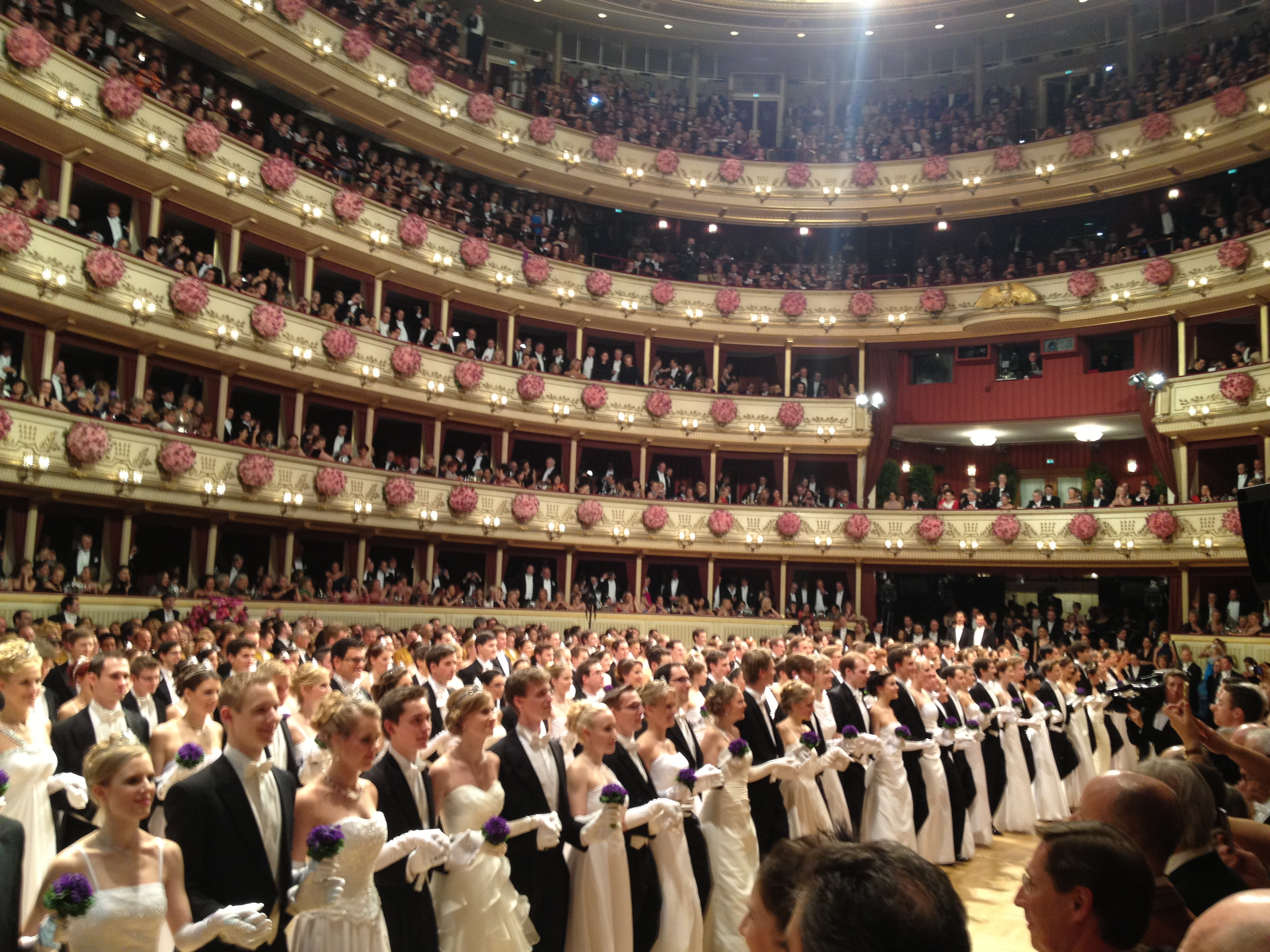 Debutants entry, Vienna Opera Ball on 27 February 2014